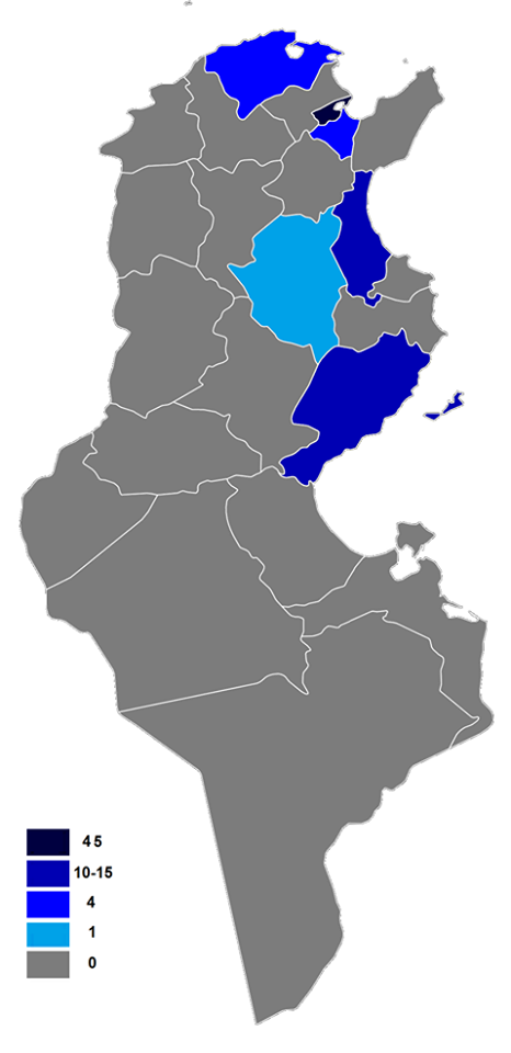 sports map